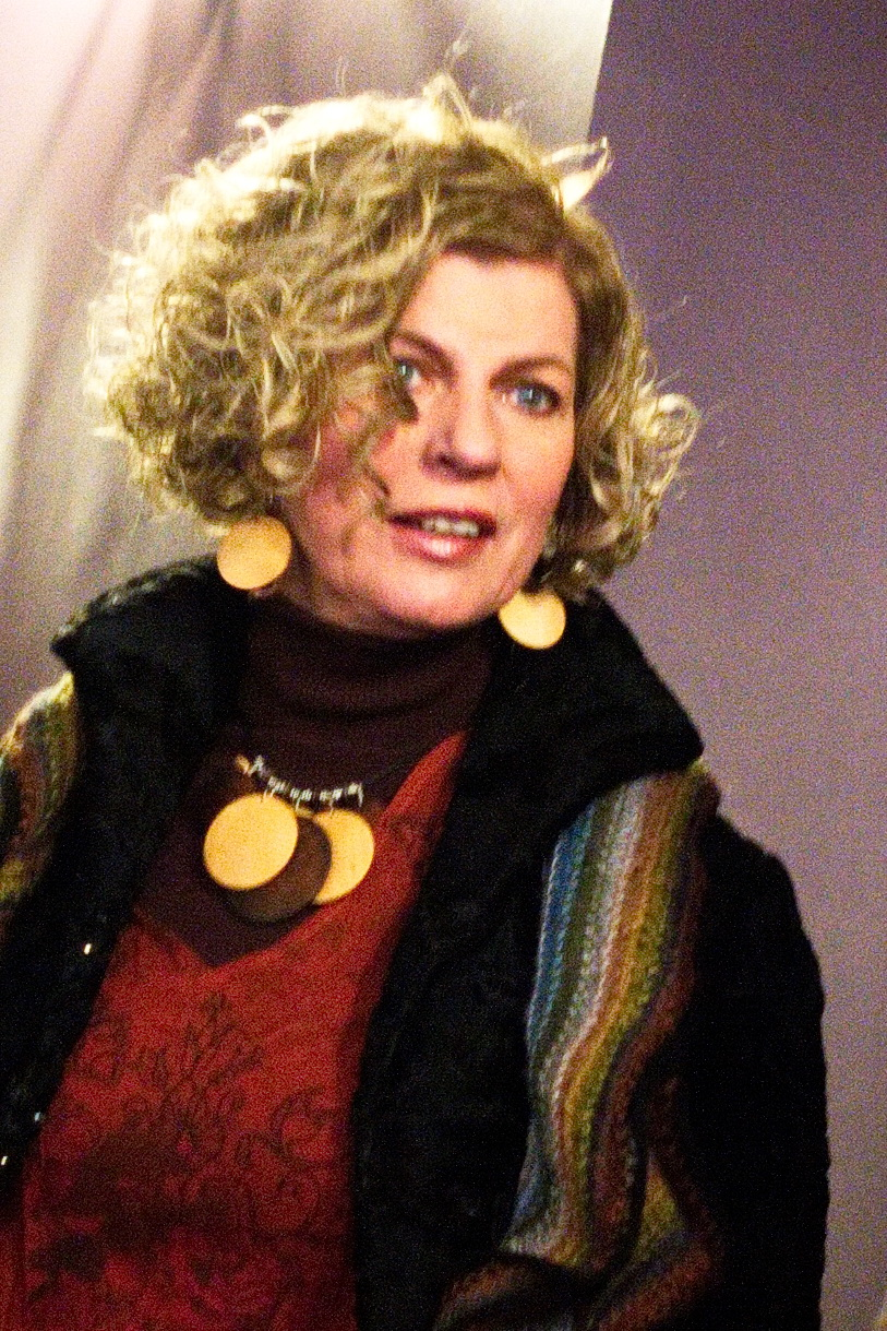 Nijolė Narmontaitė